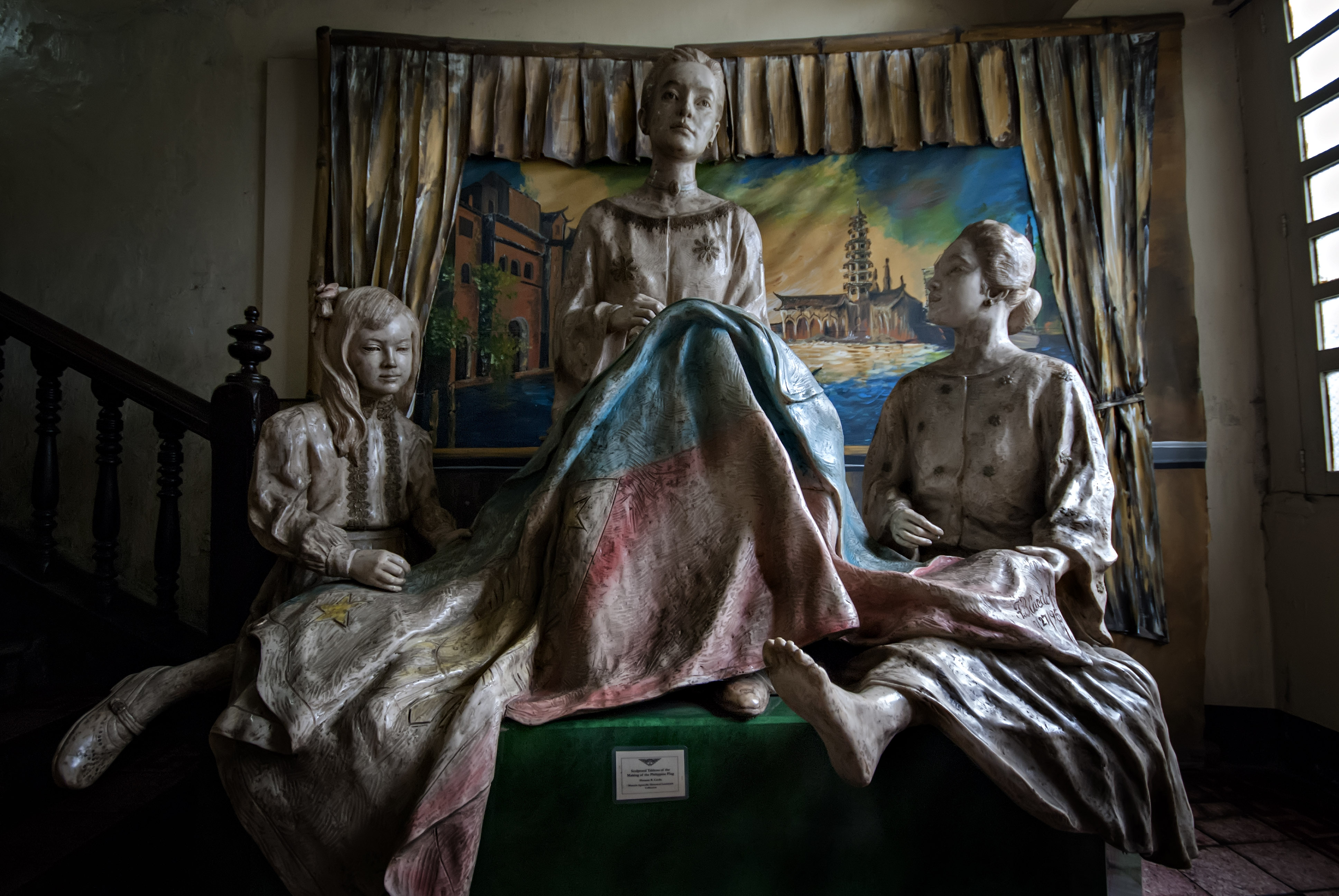 House of the principal seamstress of the first official flag of the Philippines, Marcela Mariño de Agoncillo.